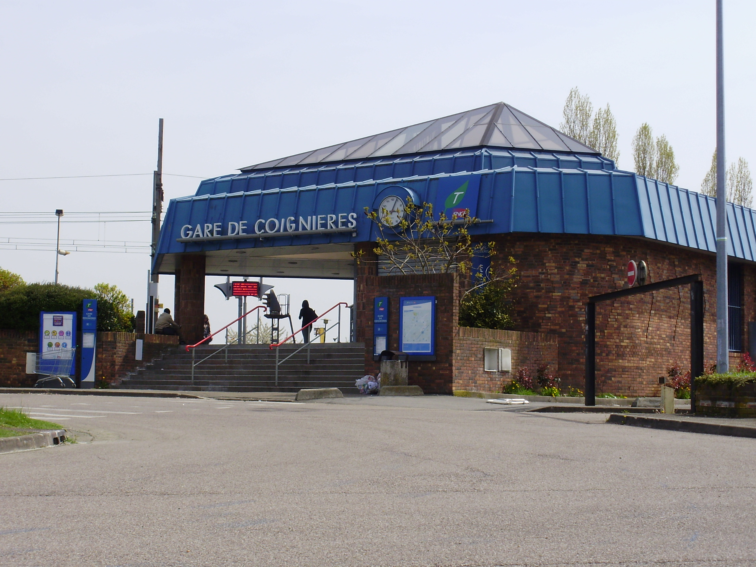 Coignières station, Yvelines, France